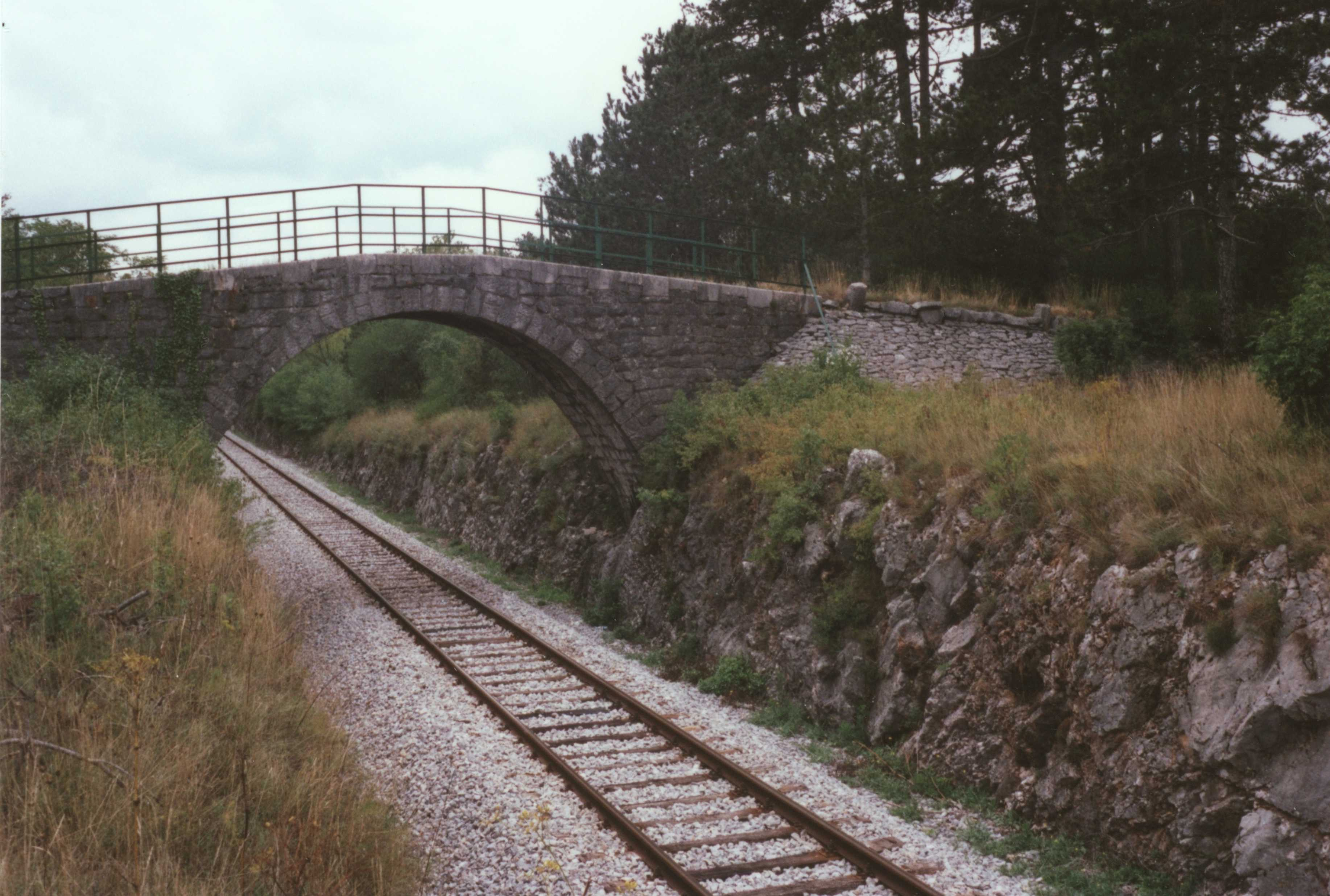 Railway between Kopriva and Kobdilj (Primorska, Slovenia)